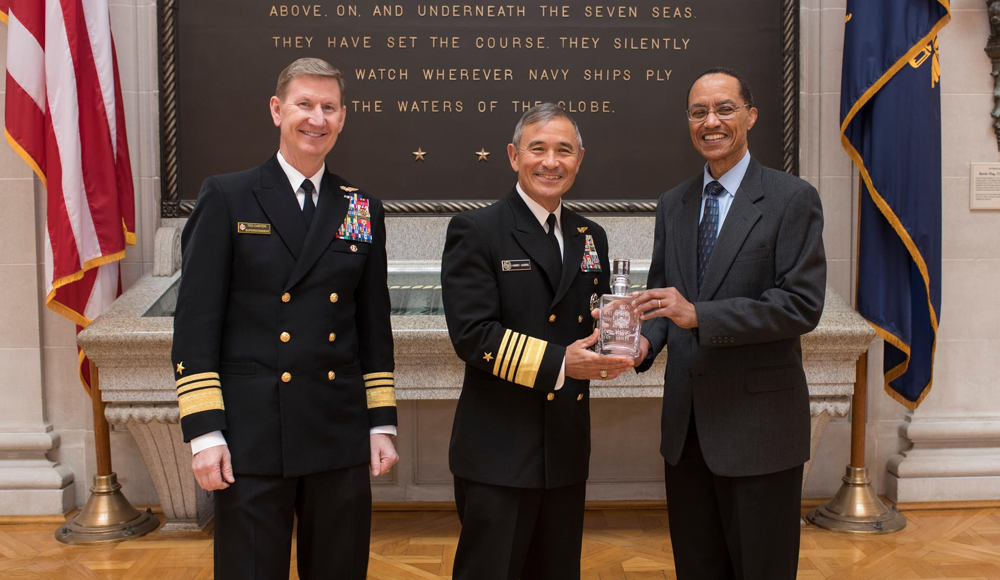 Retired Admiral Cecil D. Haney presents the "Old Goat" decanter to the commander of U.S. Pacific Command Admiral Harry B. Harris Saturday, April 8, 2017, designating him the oldest USNA graduate still on active duty. The decanter is engraved with the initials and class years of previous Old Goats (which include Admiral Alton L. Stock, former USNA Superintendent Vice Admiral Mike Miller, and former Chief of Naval Operations Admiral Jonathan Greenert.)